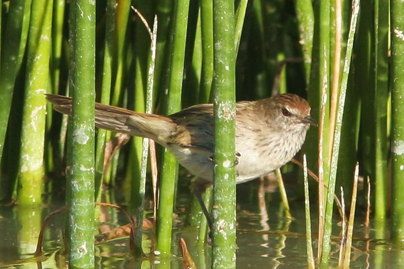 Little Grassbird, Megalurus gramineus; wild bird